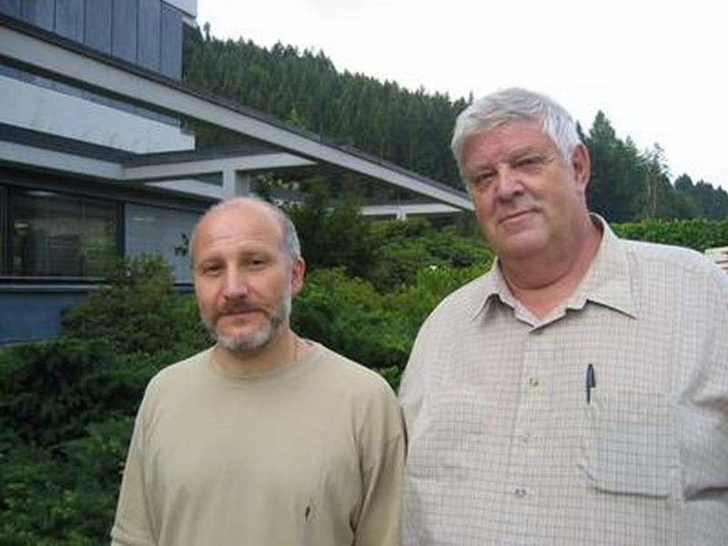 Serge Tabachnikov (left), Dmitry Fuchs (right), Oberwolfach 2006